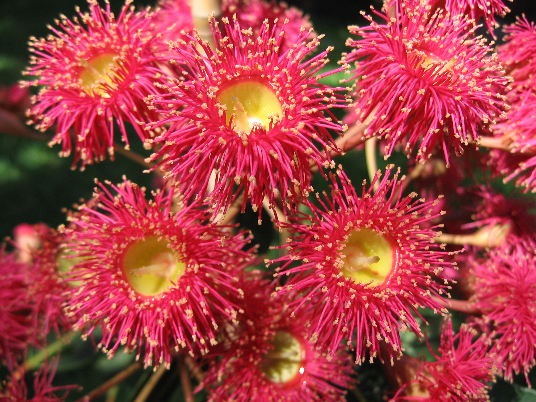 Flowers of Eucalyptus ficifolia x Eucalyptus ptychocarpa hybrid.